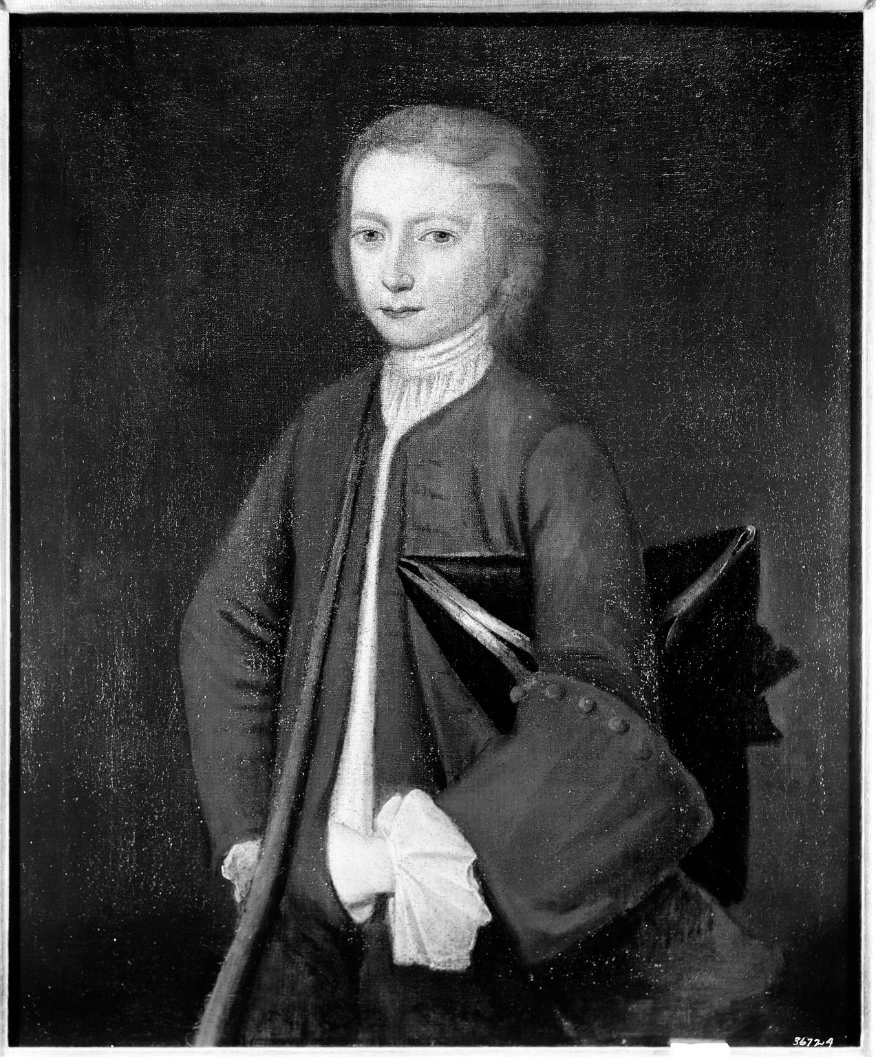 30 x 25 in. oil on canvas; rebacked.